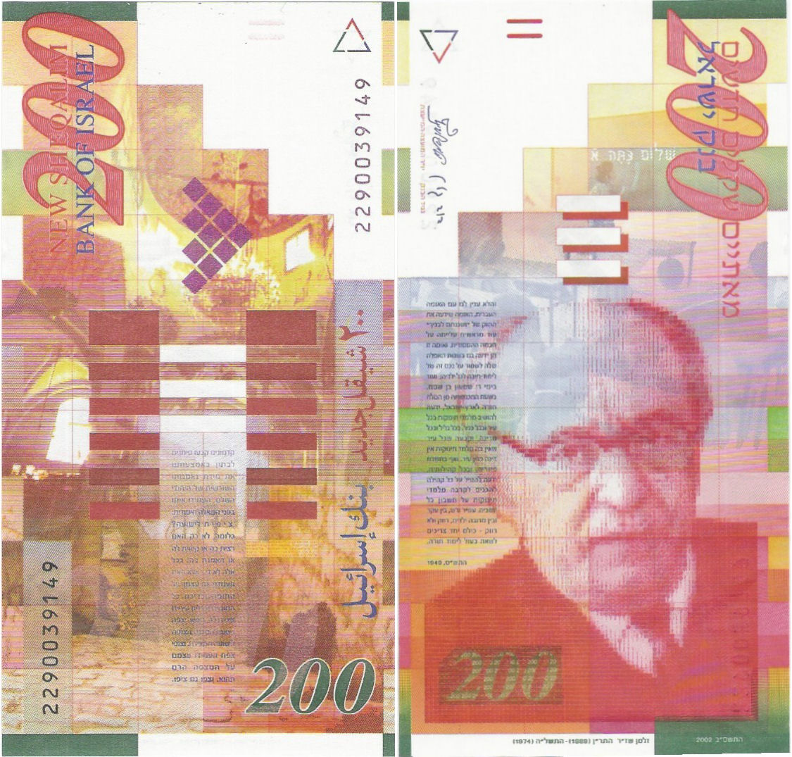 200 NIS bill observe and reverse